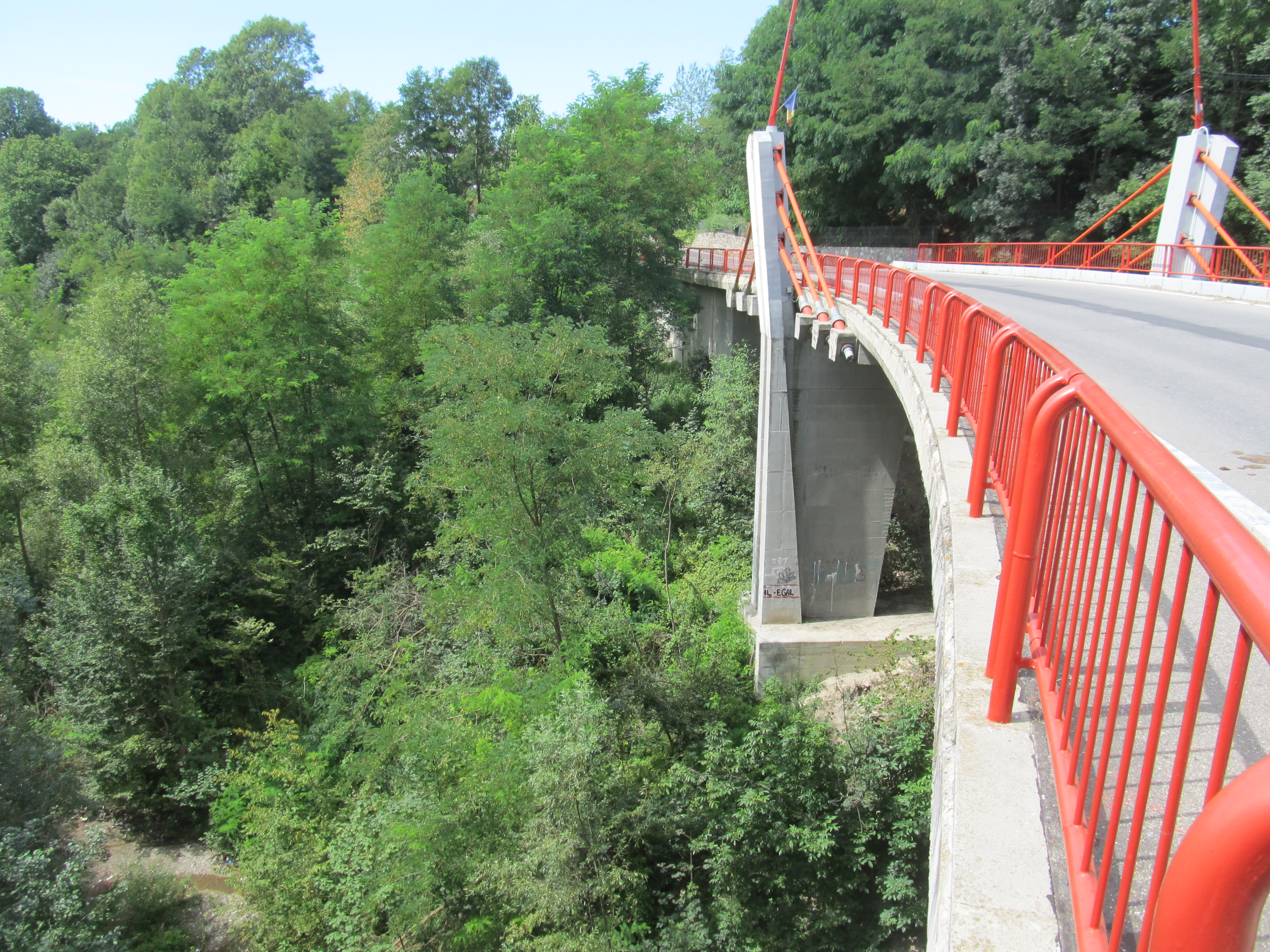 The cable-stayed bridge over the Valea Rea in the commune of Cornu, Prahova county, in Romania. It carries local road DC1.